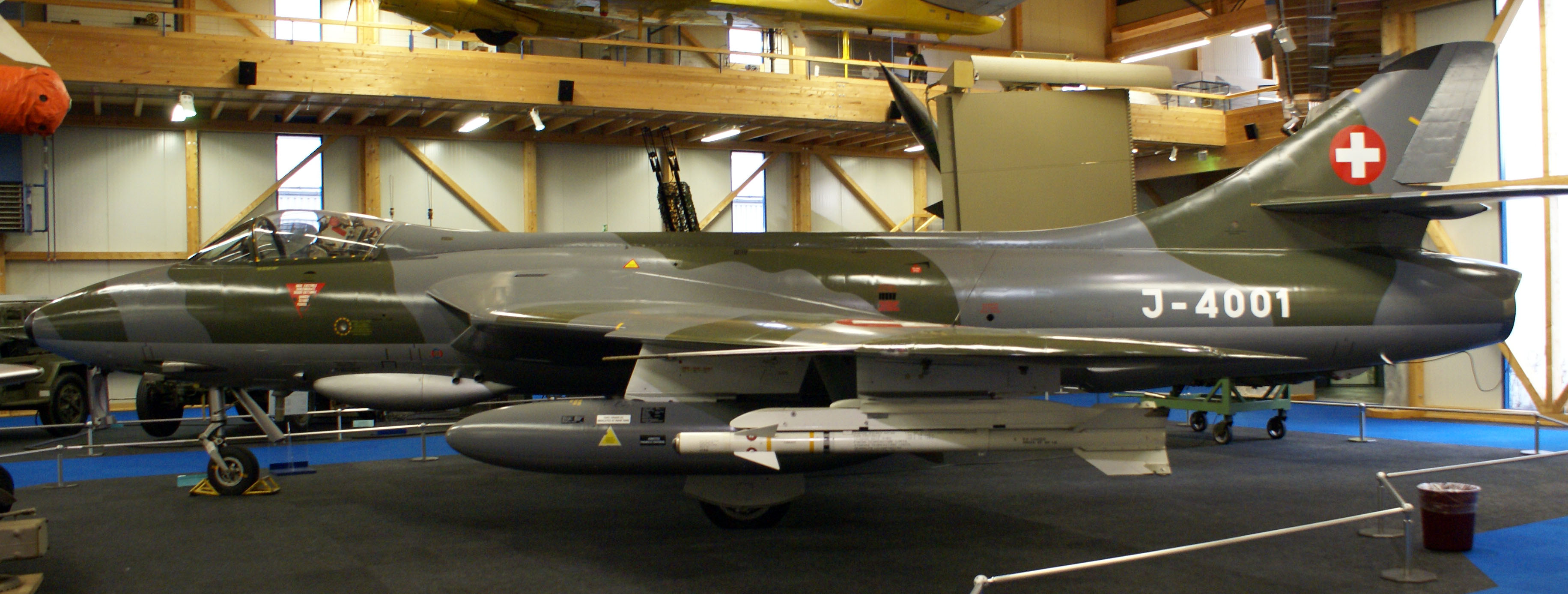 Hawker Hunter Mk.58 (F.6 export version) strike fighter as used by the Swiss Air Force from 1958 to 1994.